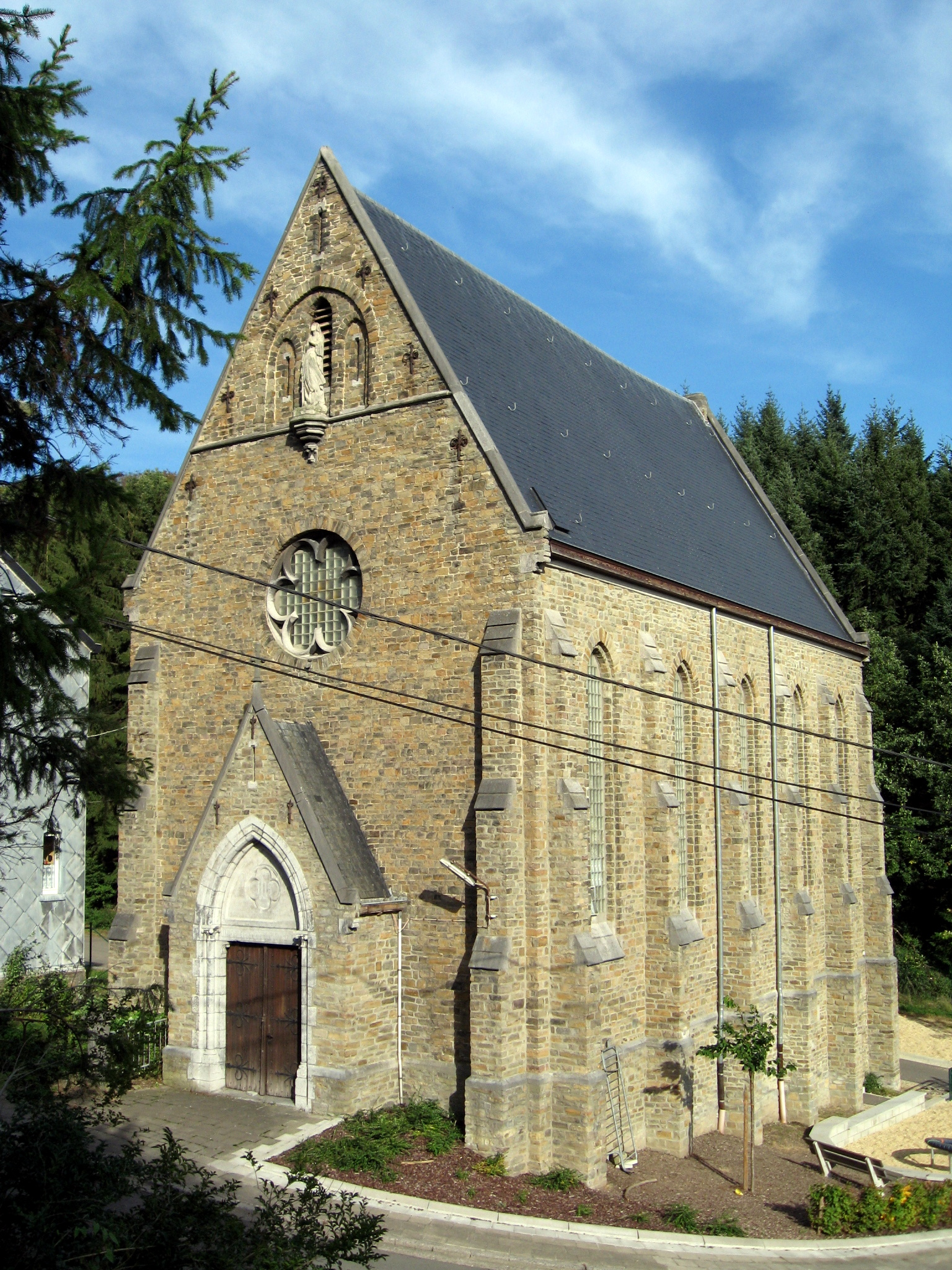 Church of the Immaculate Conception in Renoupré, Andrimont, Dison, Liège, Belgium